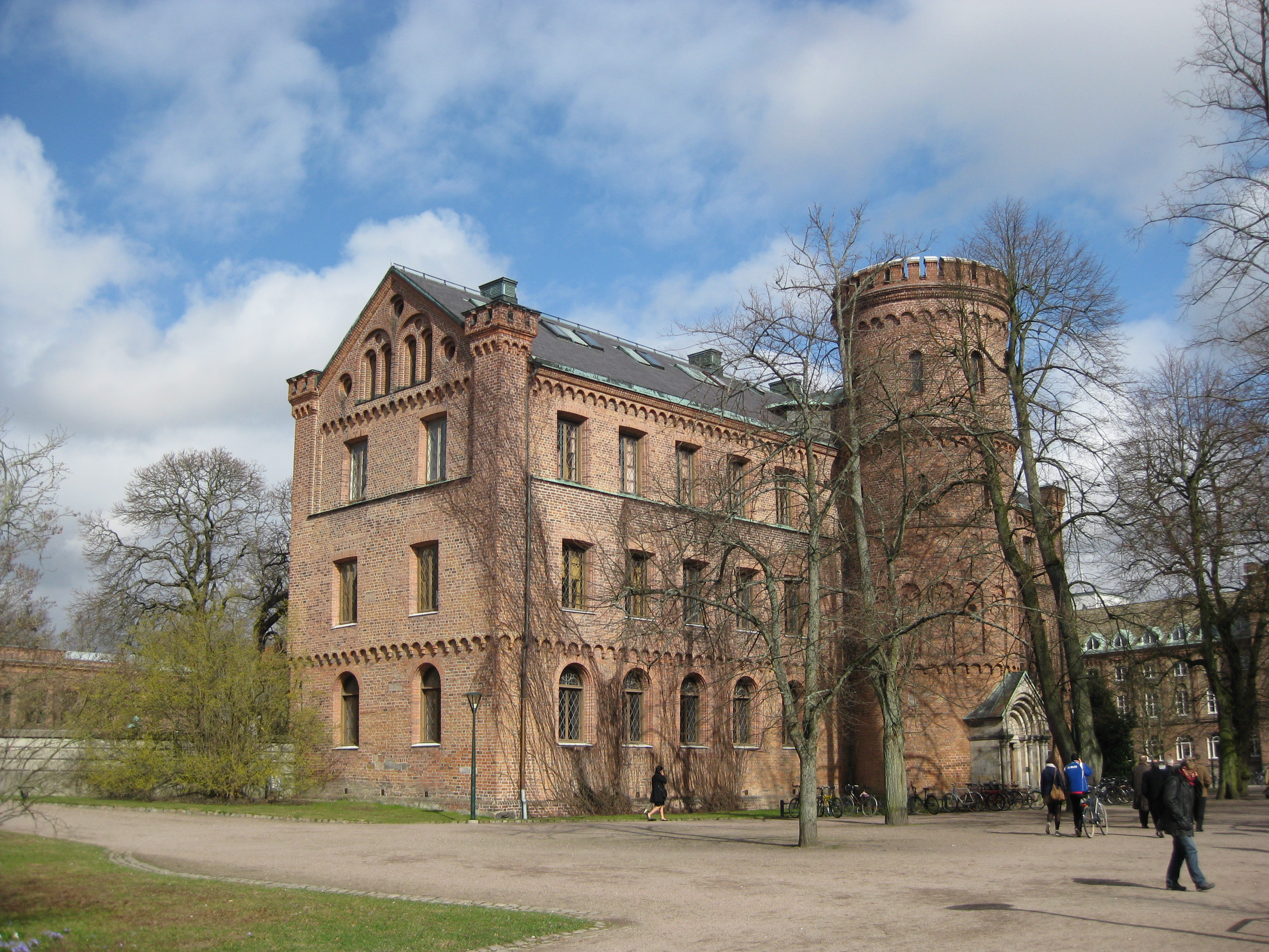 Kungshuset, Lund 2010